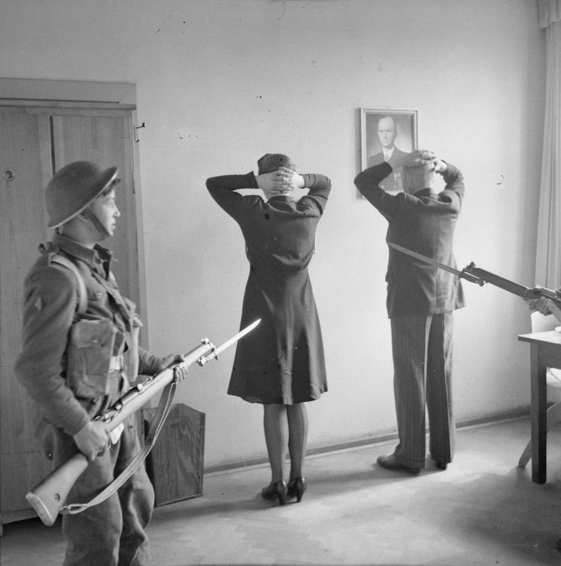 Germany Under Allied Occupation Prisoners under guard during the operation to arrest members of the German Government carried out by men of 'A' Company, 1st Battalion, The Cheshire Regiment. The building stormed was in Muivik, a few miles from Flensburg, and twelve 'Grade 1' prisoners were taken including General Jodl. --- (In the background of the picture is a picture of Karl Dönitz.)